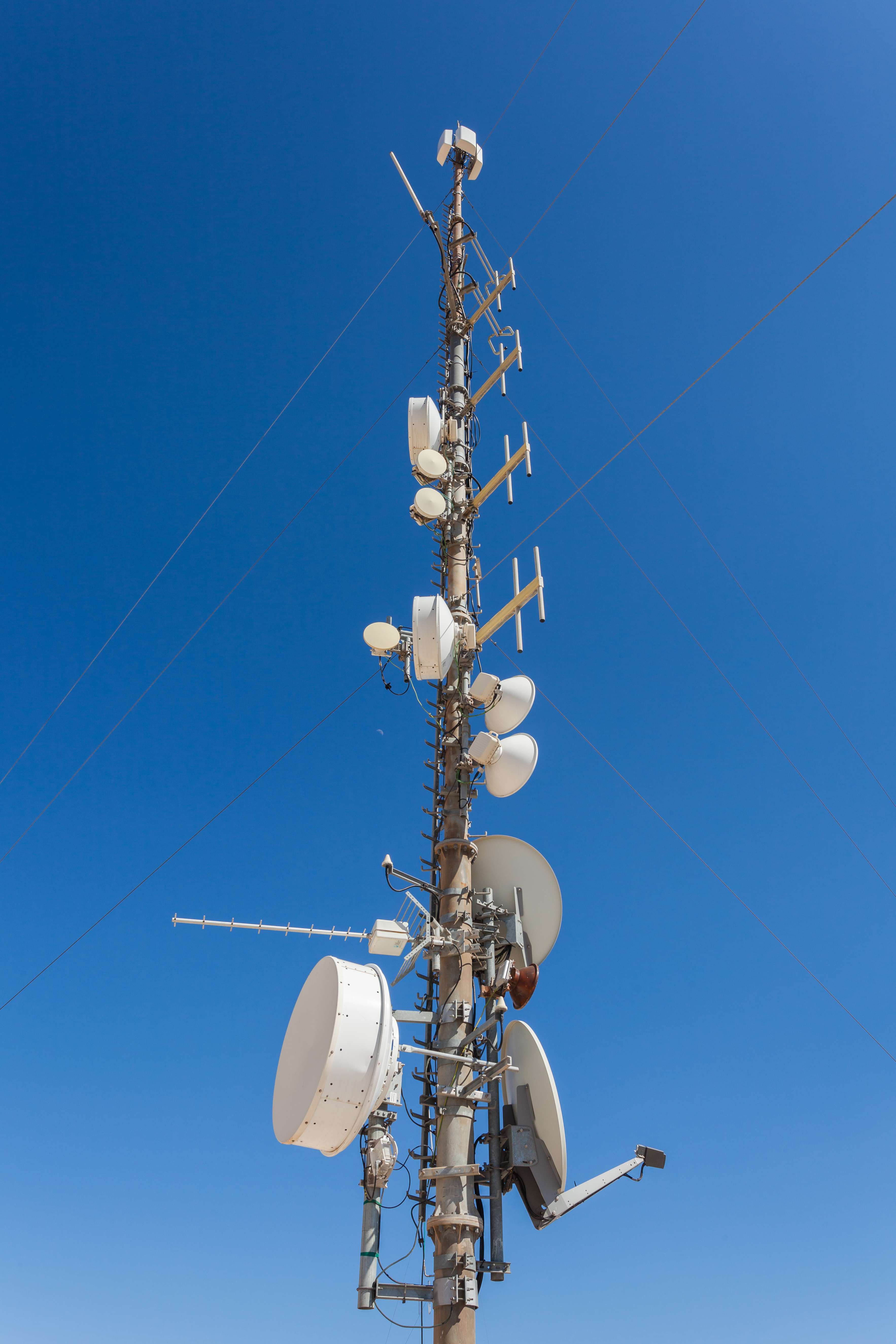 Antenna mast in the Castle of St Barbara, Alicante, Spain